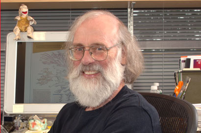 Profile picture of Tony Hunter